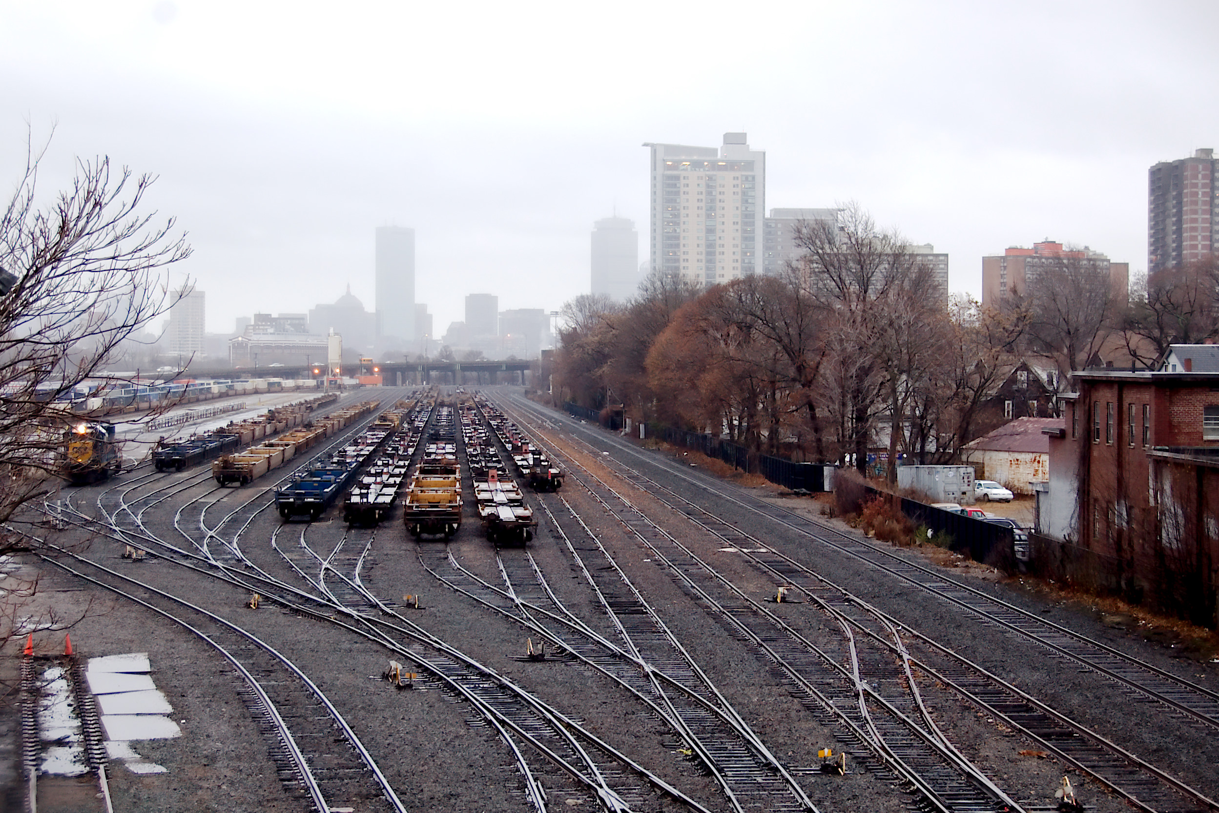 A fleet of well cars at CSX' Beacon Park yard in Boston. CSX will close this yard and expand in yards west of Boston, though commuter rail lines through the yard (right side) will remain. The John Hancock Tower and Prudential Tower are visible in background, partly enveloped in fog.